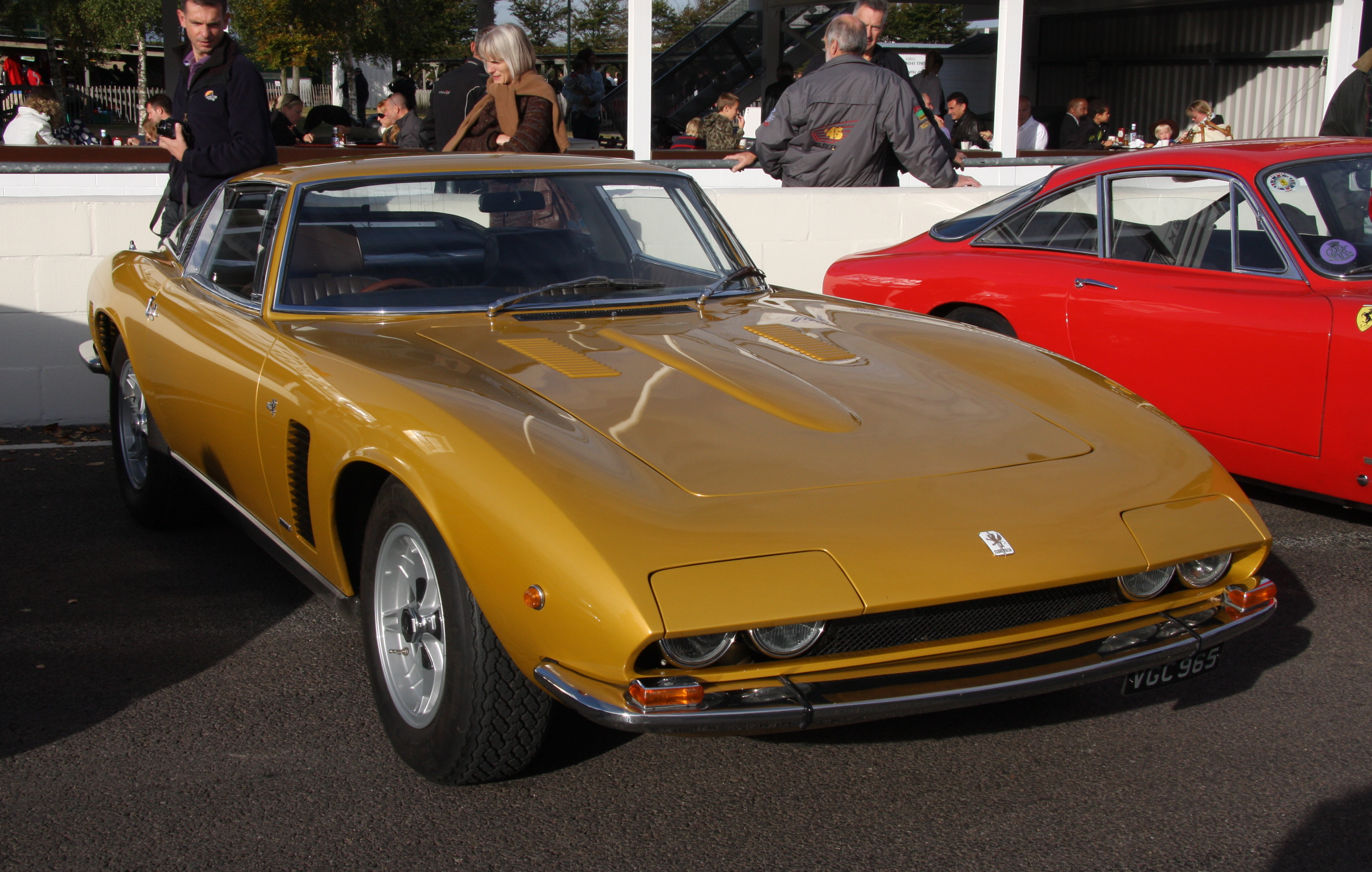 Iso Grifo